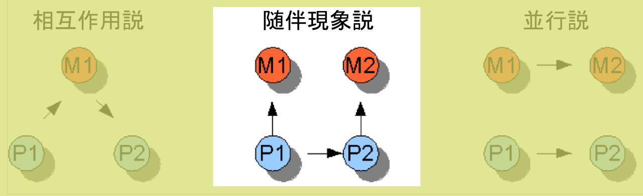 Epiphenomenalism, in Japanese. 随伴現象説。